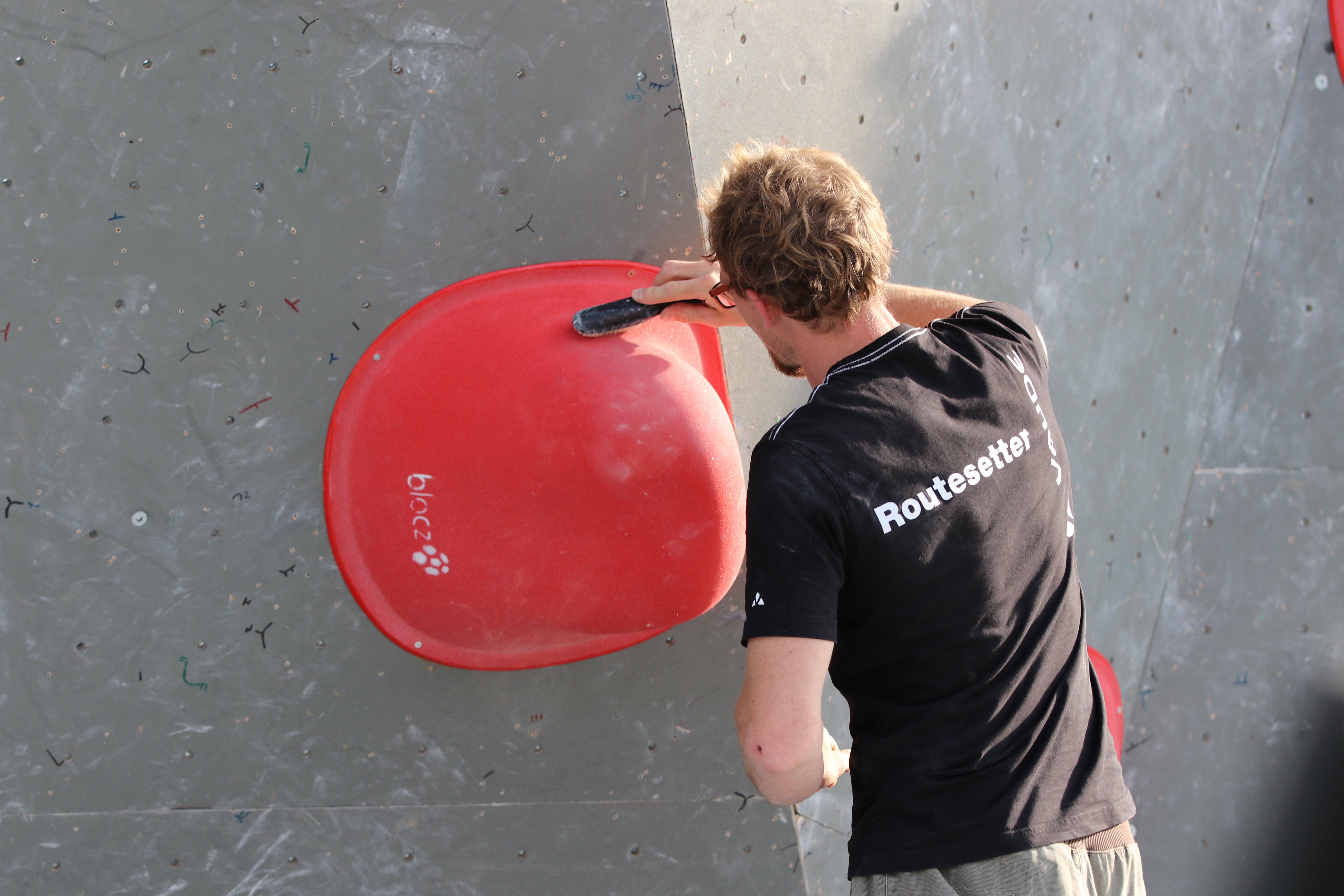 A routesetter prepares an obstacle at the Boulder Worldcup 2017 in Munich, Germany